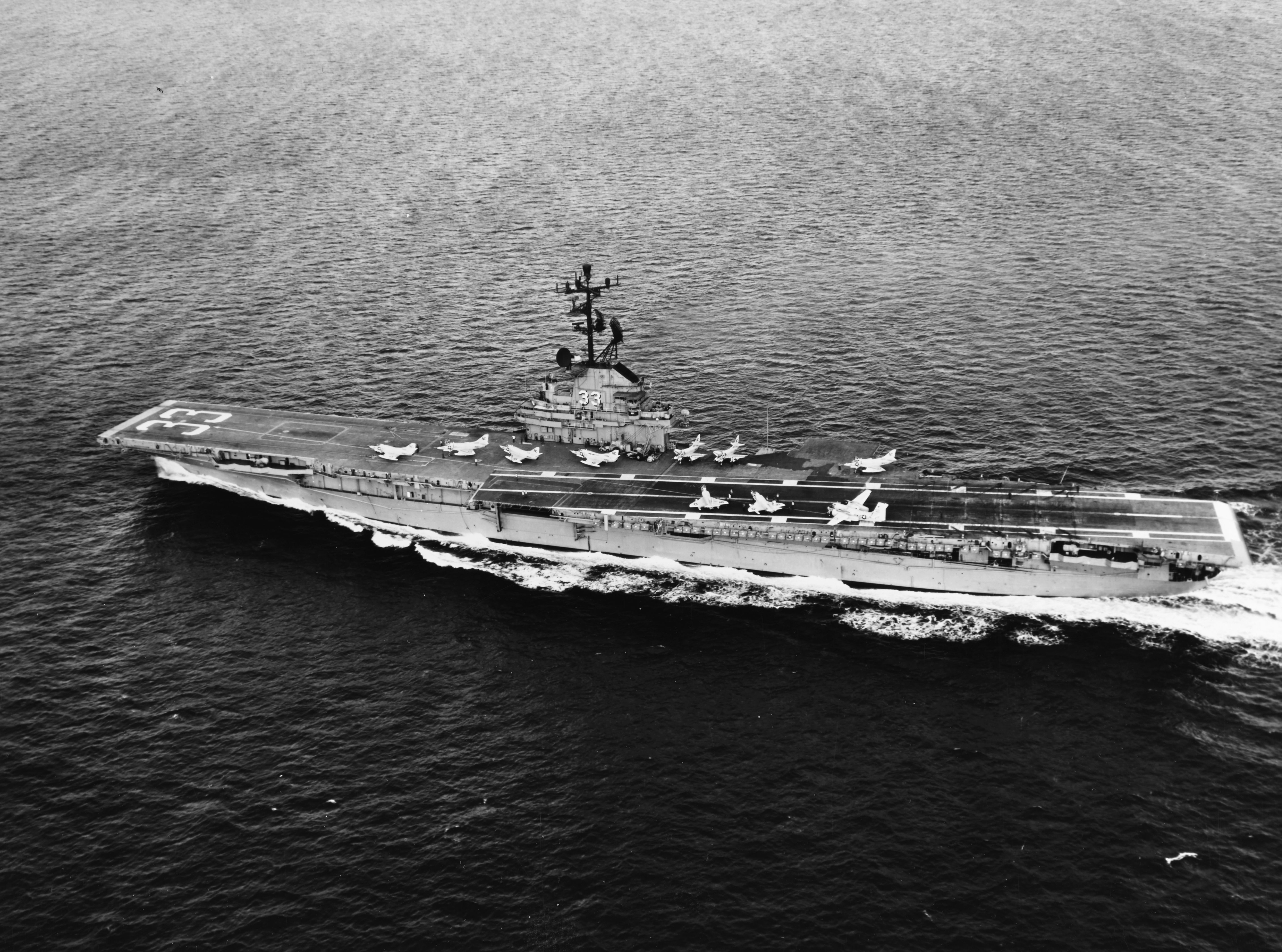 The U.S. Navy aircraft carrier USS Kearsarge (CVS-33) at sea, 12 December 1965. Although being an anti-submarine carrier, she has nine Douglas A-4C Skyhawk attack jets on her flight deck, as well as one Grumman S-2 Tracker anti-submarine plane. Note: The Skyhawks wear the tail code "NG" of Attack Carrier Air Wing 9 (CVW-9). This wing, however, was assigned to USS Enterprise (CVAN-65) for a deployment from Norfolk, Virginia (USA) to Alameda, Califronia (USA), and from there then to Vietnam from 26 October 1965 to 21 June 1966.